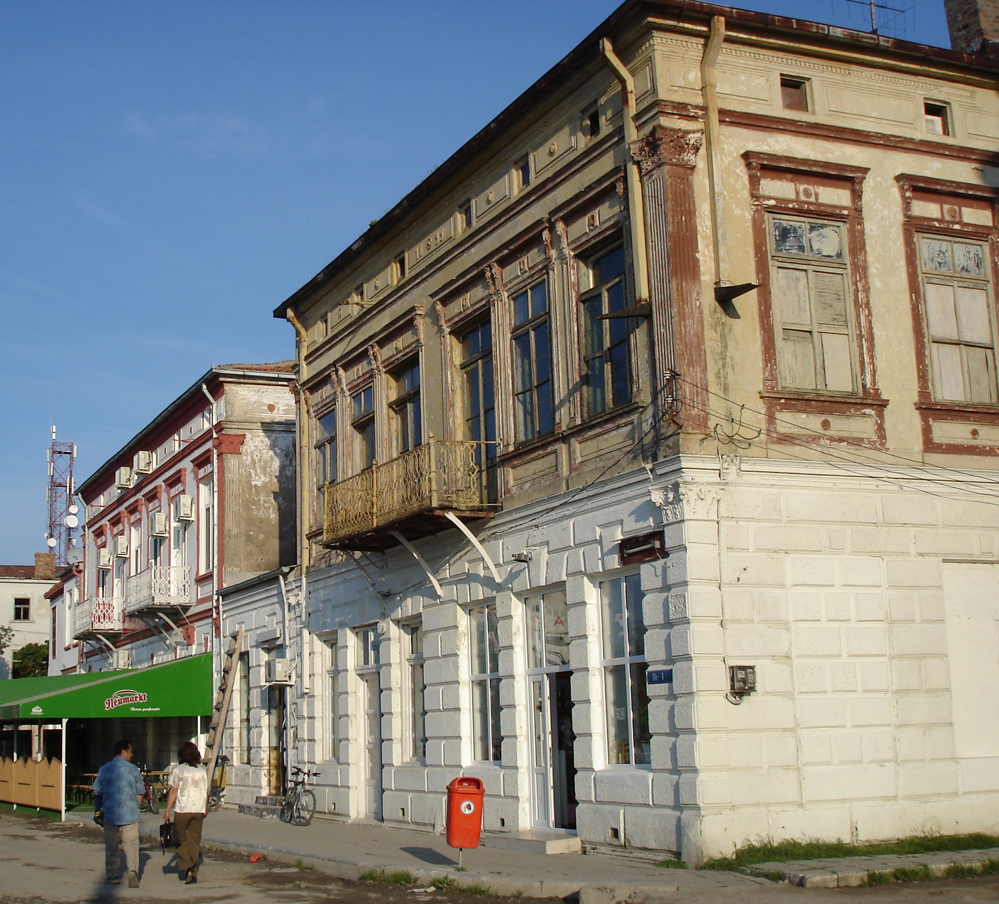 Main street (n° 1) of Sulina (Romania), june 11, 2006